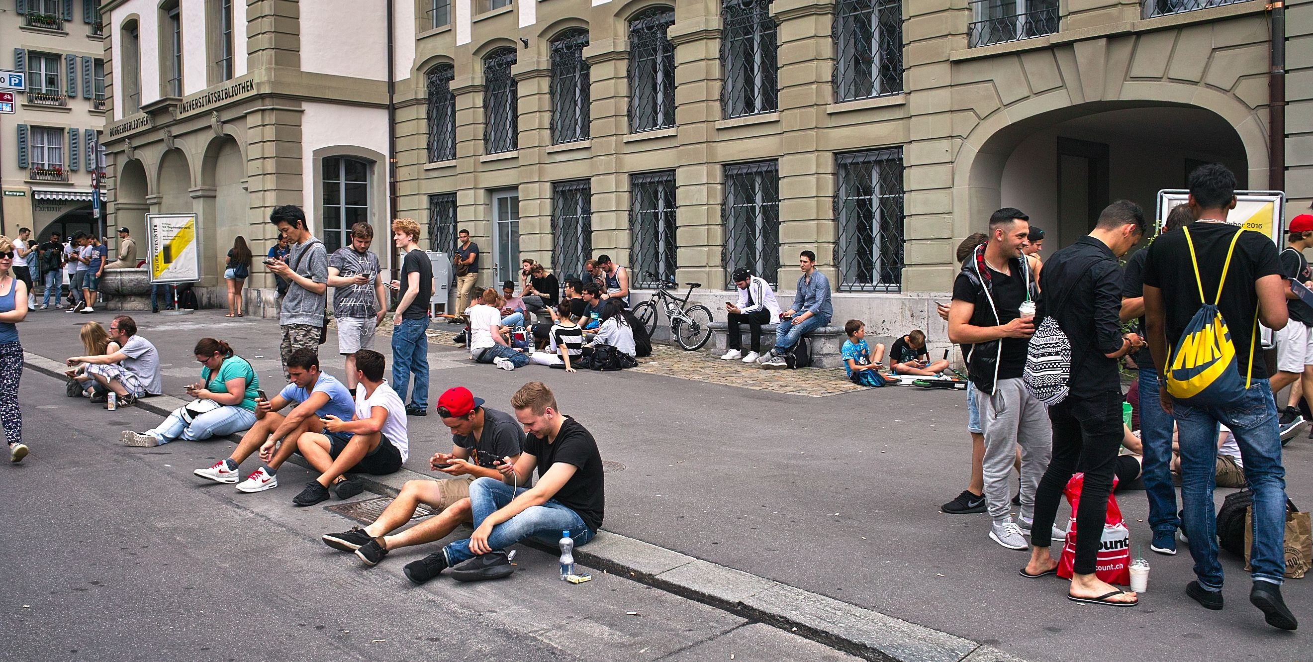 A pokéstop (Pokémon GO) in Bern near the Kulturcasino.